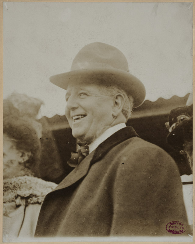 Photo courtesy of the Boston Public Library. Charles Comiskey, owner of the Chicago White Sox. Photo caption: The Old Roman, Comisky [sic], owner of the Chicago Americans.; McGreevey no. 5